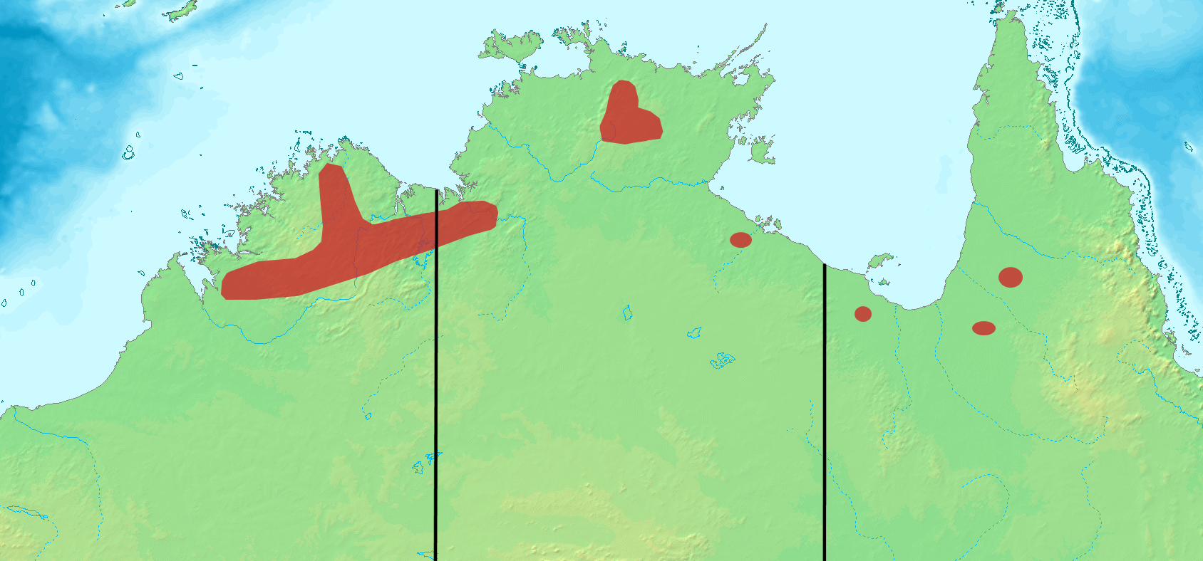 The Distribution of the Gouldian Finch